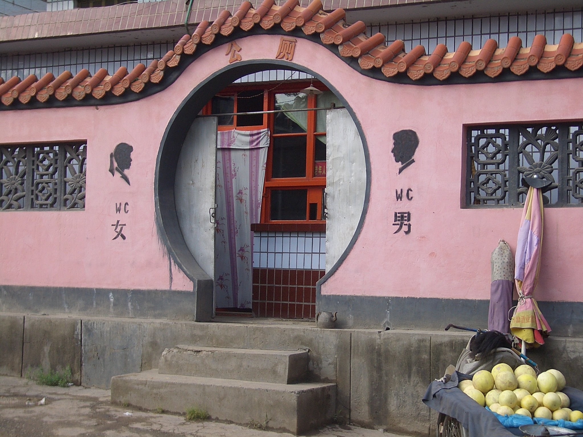 A public toilet in Linxia City's Xiguan Lu (West Gate St). The window in the middle is to collect the "user fee" (50 fen)